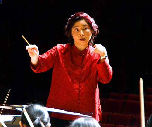 Taiwanese-American conductor Apo Hsu in rehearsal